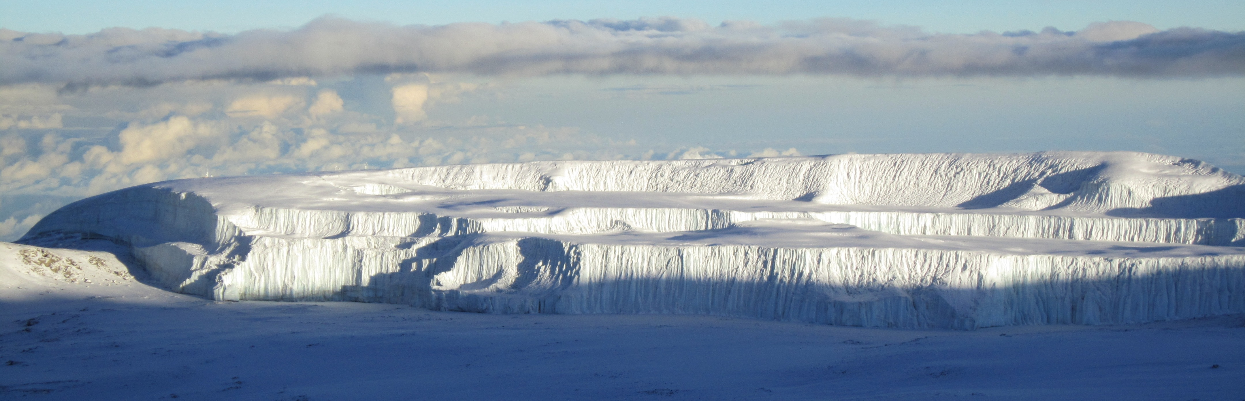 The main glacier on the top of Kilimanjaro as seen in Feb of 2012.